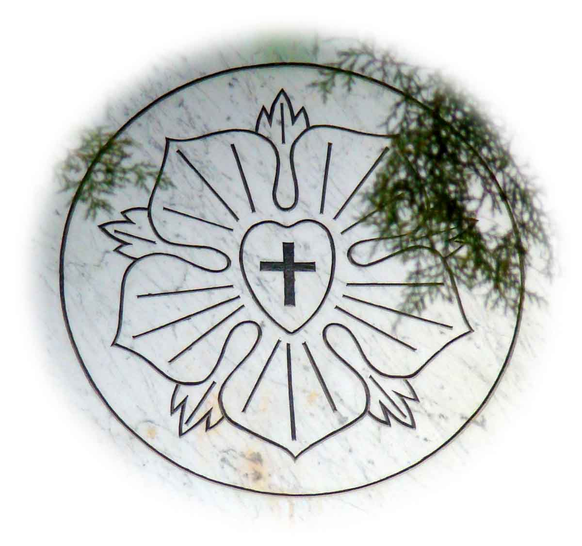 A detail of the evangelic rose over the entry to church in Nové Zámky